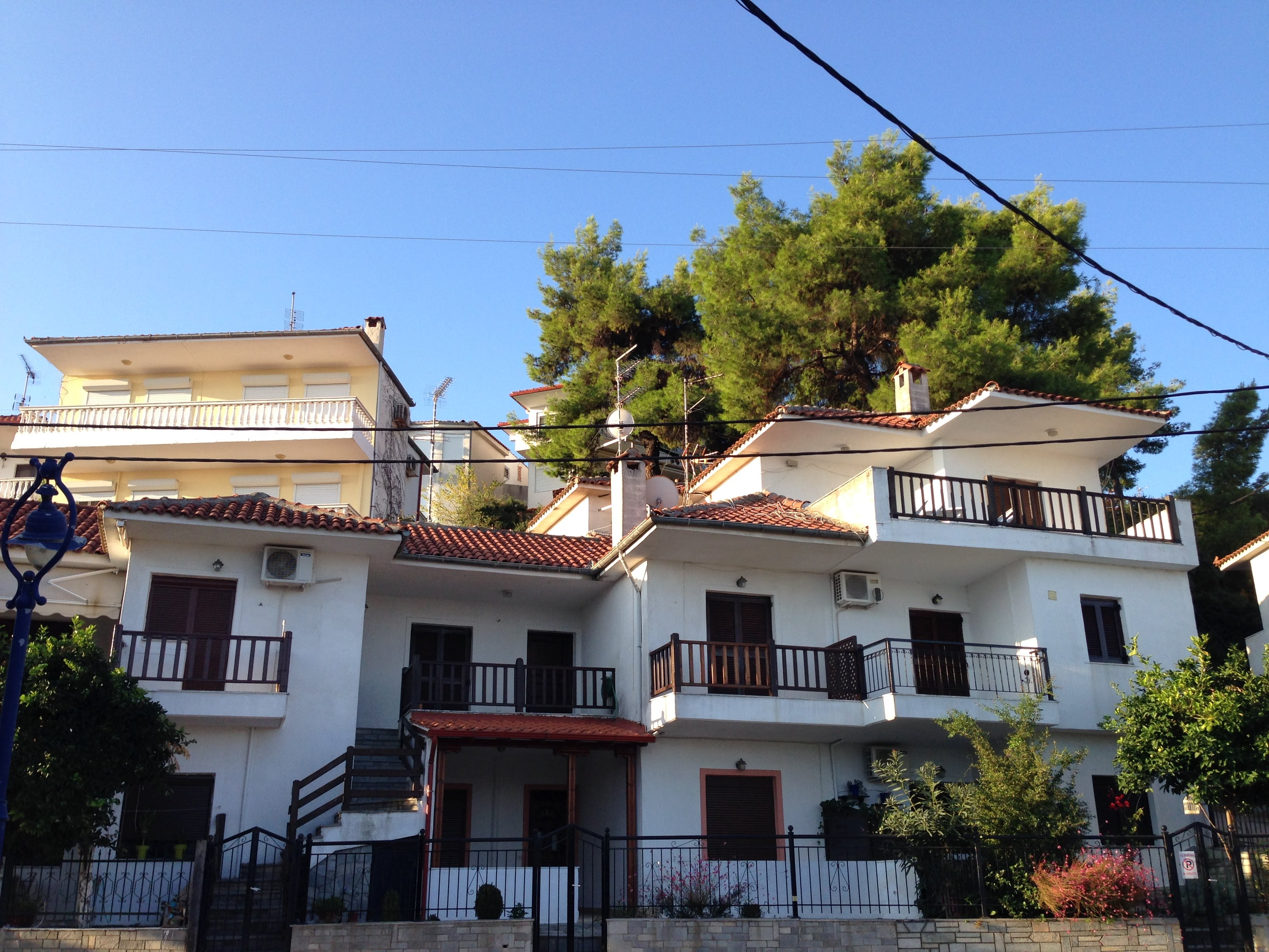 Polychrono, apartments and studios on the coast.